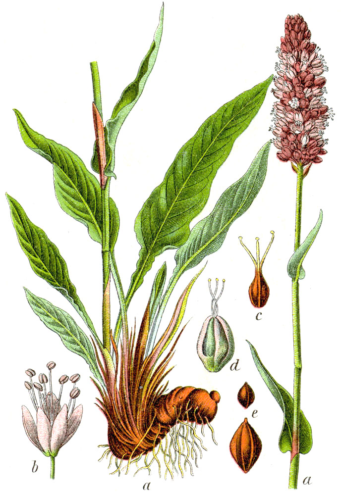 Persicaria bistorta (L.) Samp., syn. Bistorta officinalis Delarbre, Polygonum bistorta L. Original Caption Natterwurz, Polygonum bistorta